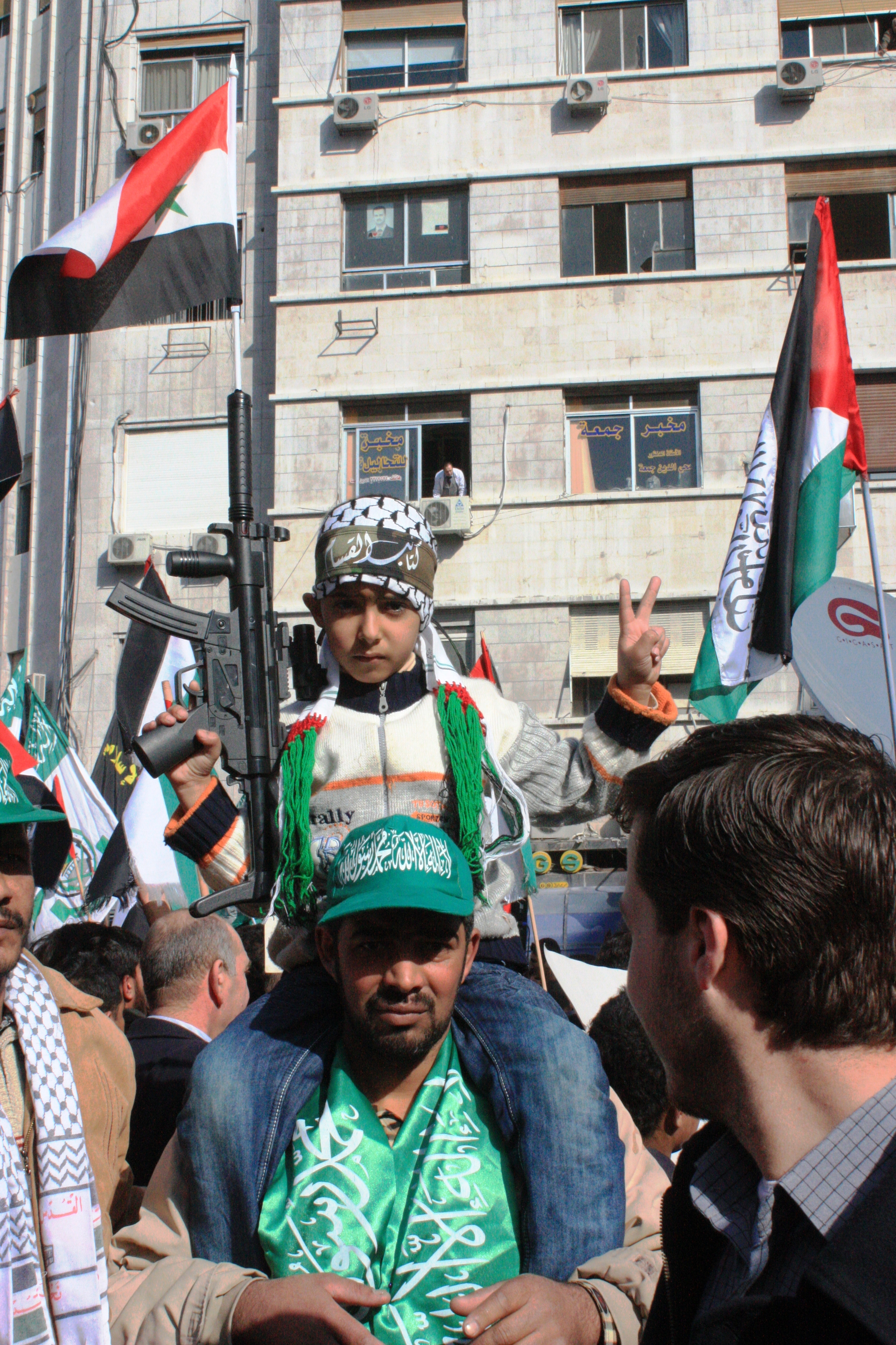 Pro-Hamas demonstrators at a rally in Damascus Syria in december 2008 during the Israel-Gaza conflict.